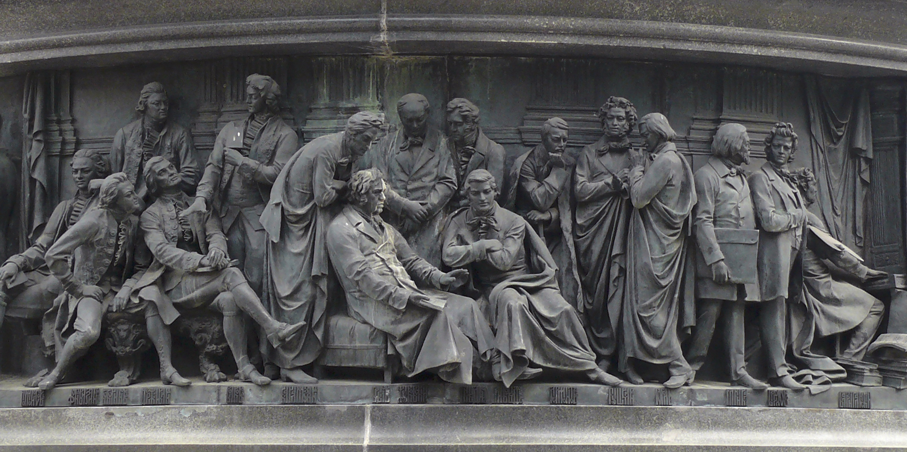 The group of writers and artists on the Monument "Millennium of Russia" in Veliky Novgorod